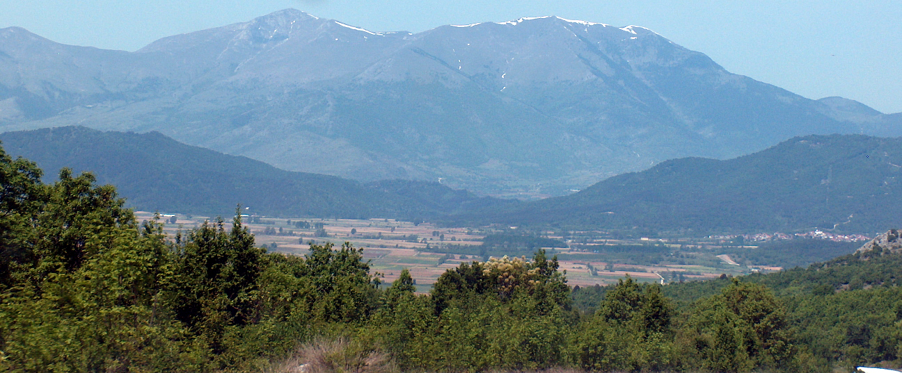 Orvilos